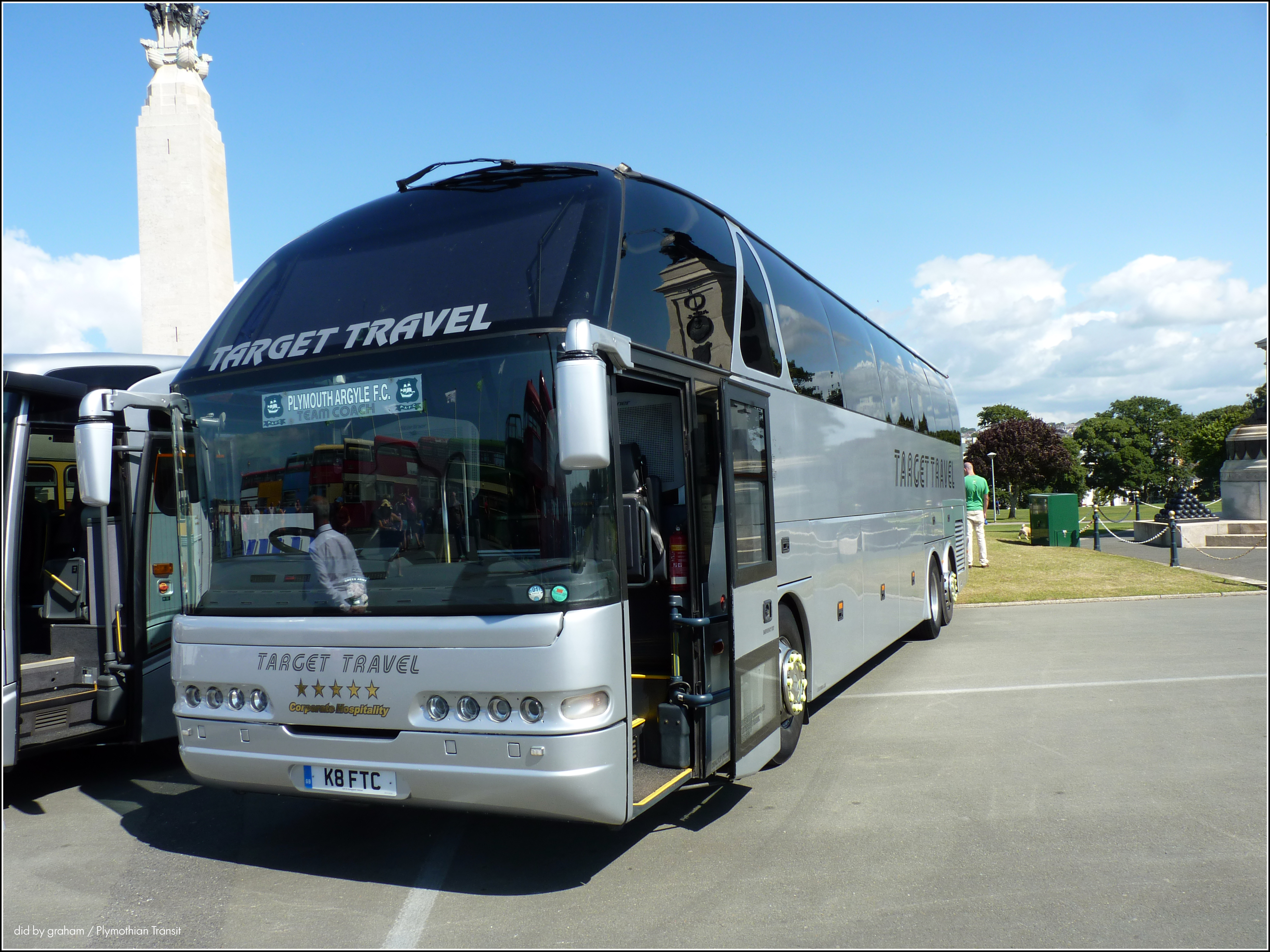 P1160570 Dealtop (Target Travel) Plymouth K 8FTC Au N516/3SHDC Neoplan 03 August 2014 Silver: Target Travel